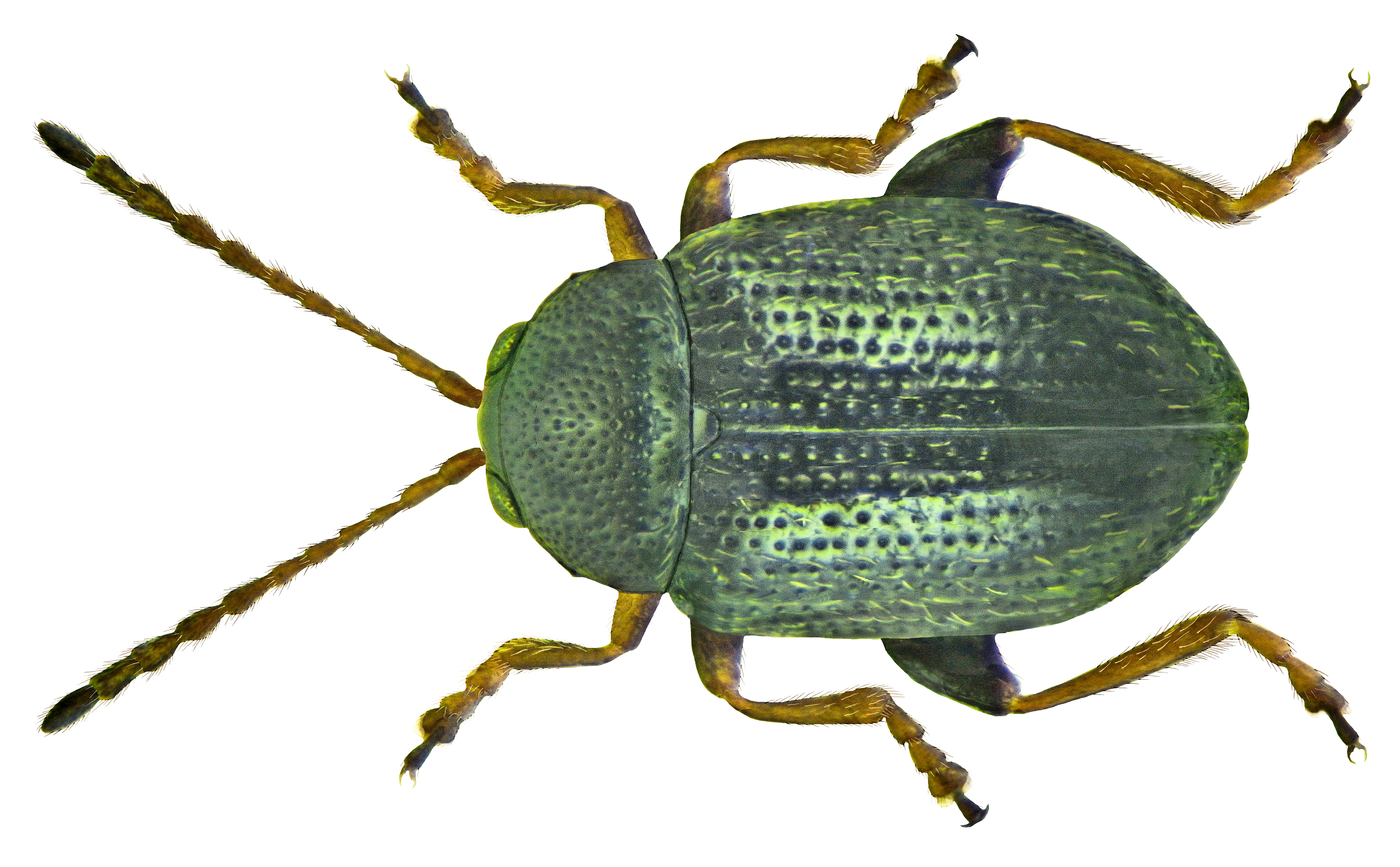 Family: Chrysomelidae Size: 1.5-2.0 mm Origin: Europe Ecology: on Solanium dulcamare, S. nigrum, Hyoscyamus and Lycium spp Location: Germany, Bavaria, Upper Franconia, Rudolphstein leg.det. U.Schmidt, 2001 Photo: U.Schmidt, 2011